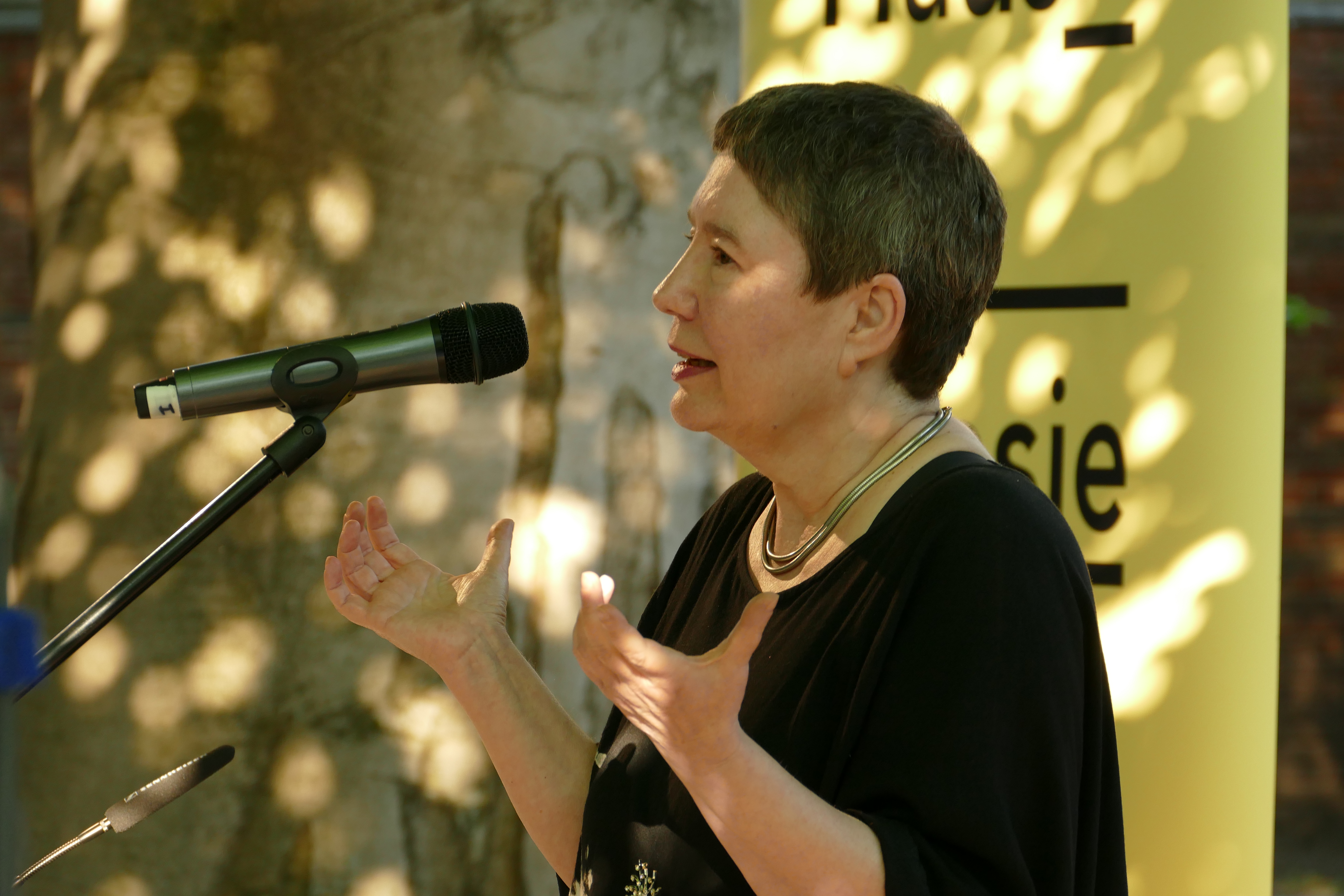 Brigitte Oleschinski at the Lyrikmarkt Berlin 2018